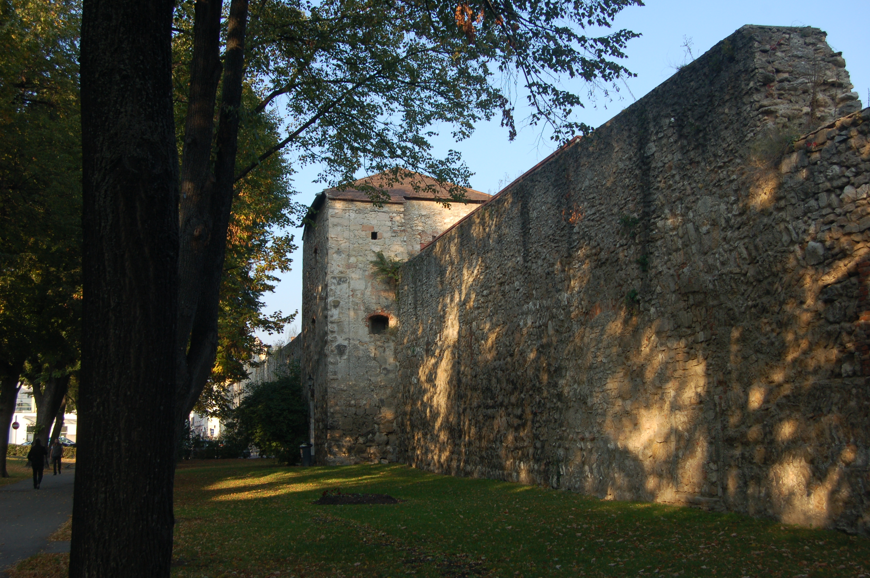 Western city walls with Rabenturm (i.e Raven Tower) of Wiener Neustadt, Lower Austria